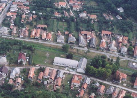 Nekézseny, Hungary, aerialphotography